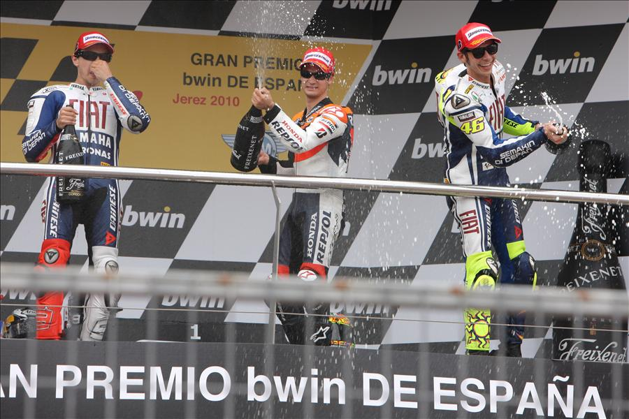 Jorge Lorenzo, Dani Pedrosa and Valentino Rossi, spraying the champagne on the podium after finishing in first, second and third place at the 2010 Spanish Grand Prix.